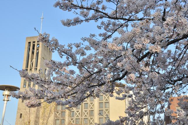 Nagoya High School